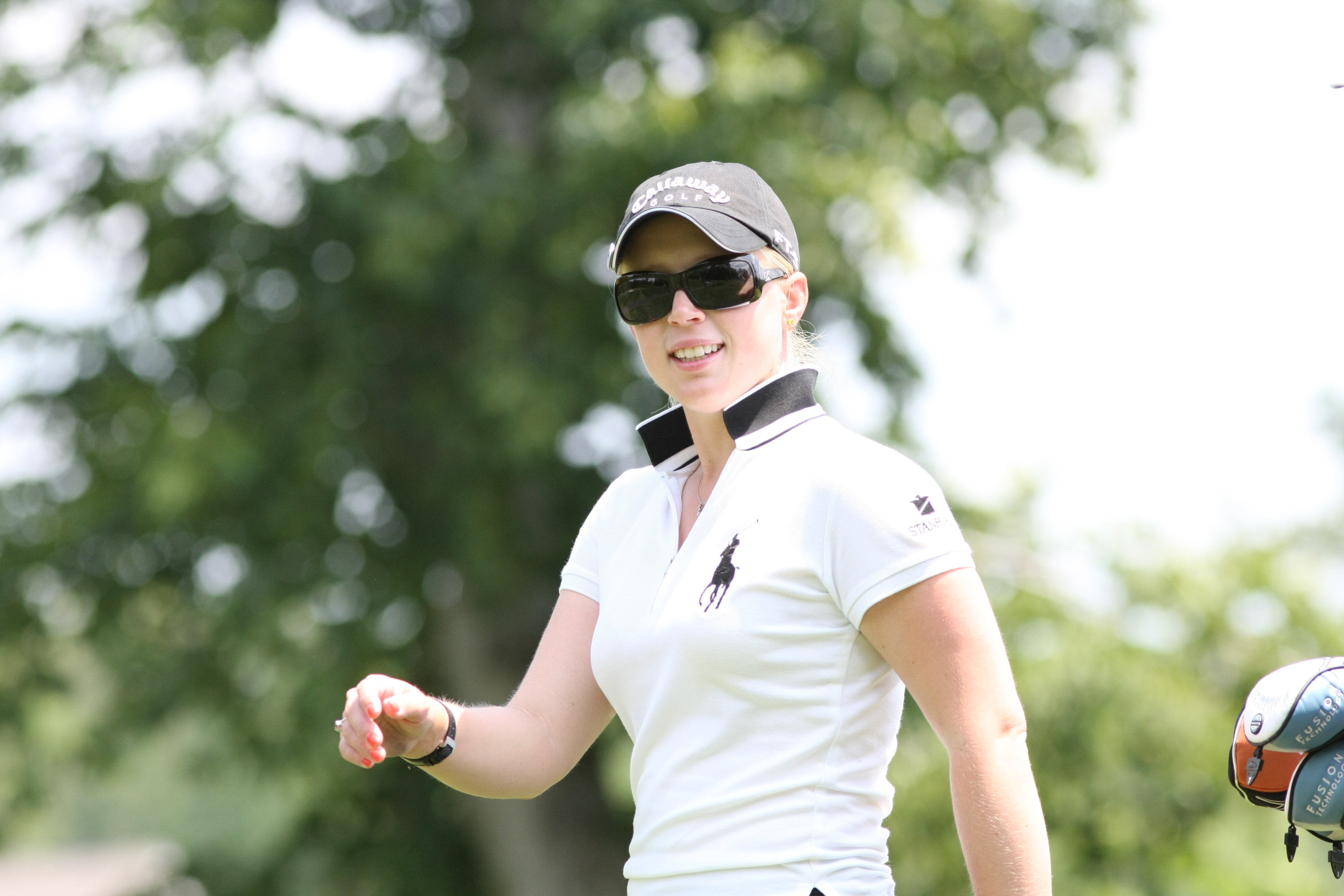 Morgan Pressel (USA) during pro-am before 2008 LPGA Championship.